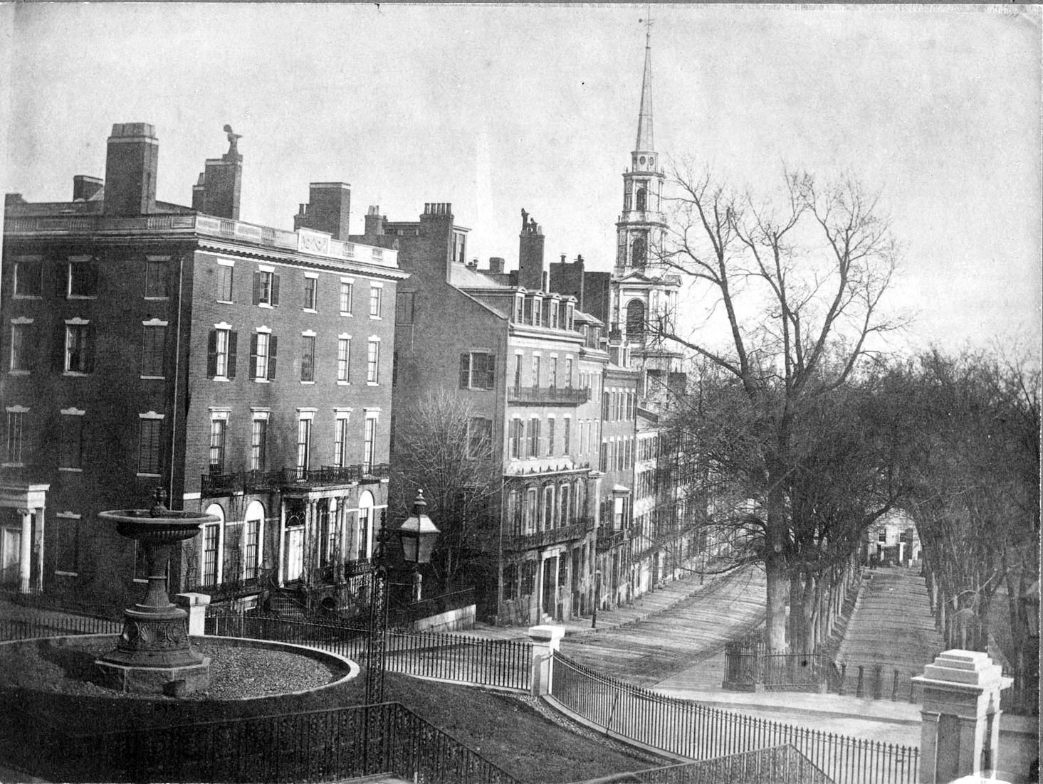 Ticknor House (left), Park Street, Boston MA. Photographer: Southworth & Hawes. 1858. View from grounds of the State House on Beacon Hill; Ticknor House on left, Boston Common to right. Print made circa 1898 from original Southworth & Hawes photograph.